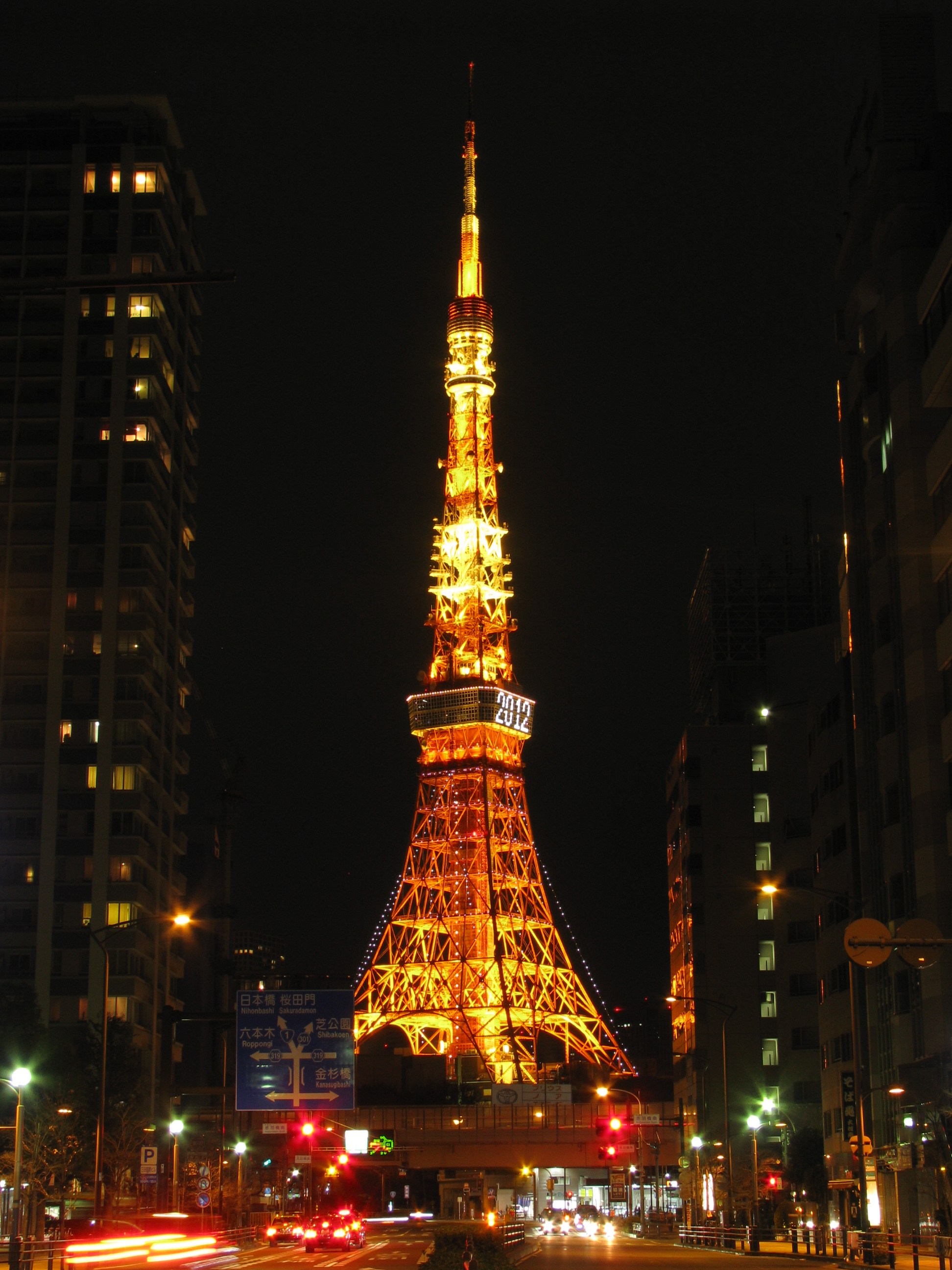 The Tokyo Tower is a communications tower, located in Minato, Tokyo, Japan.